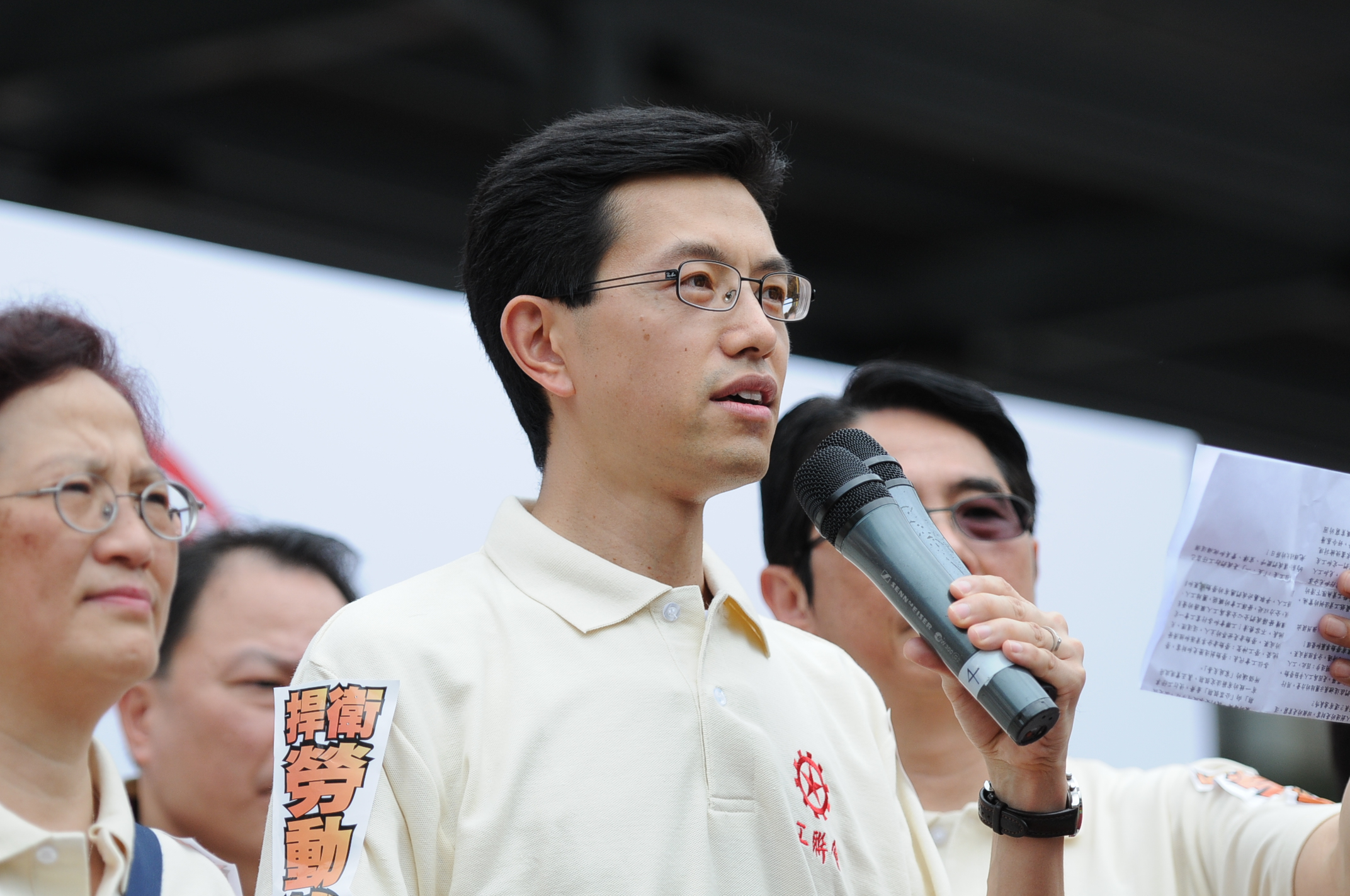 Parade on 1 May 2011